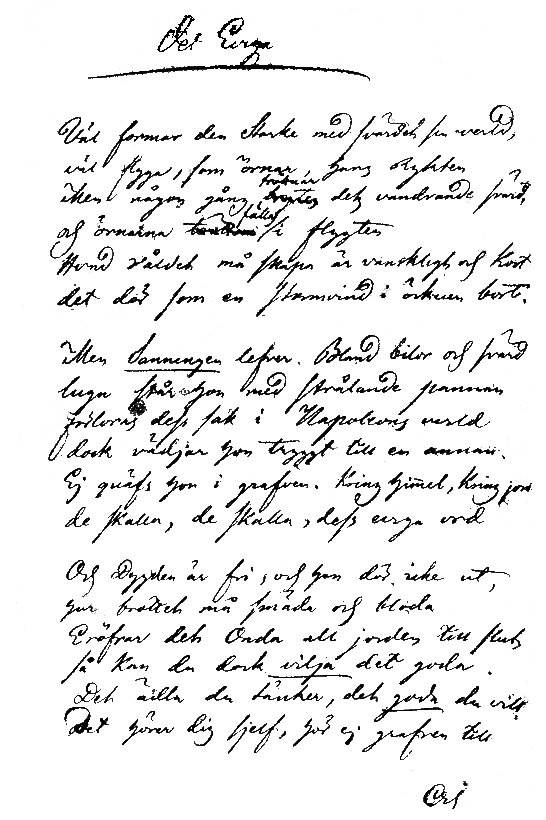 Esaias Tegnér's early draft of his poem Det eviga